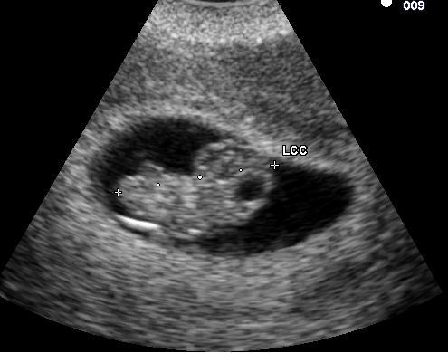 Embryo at 8 weeks.